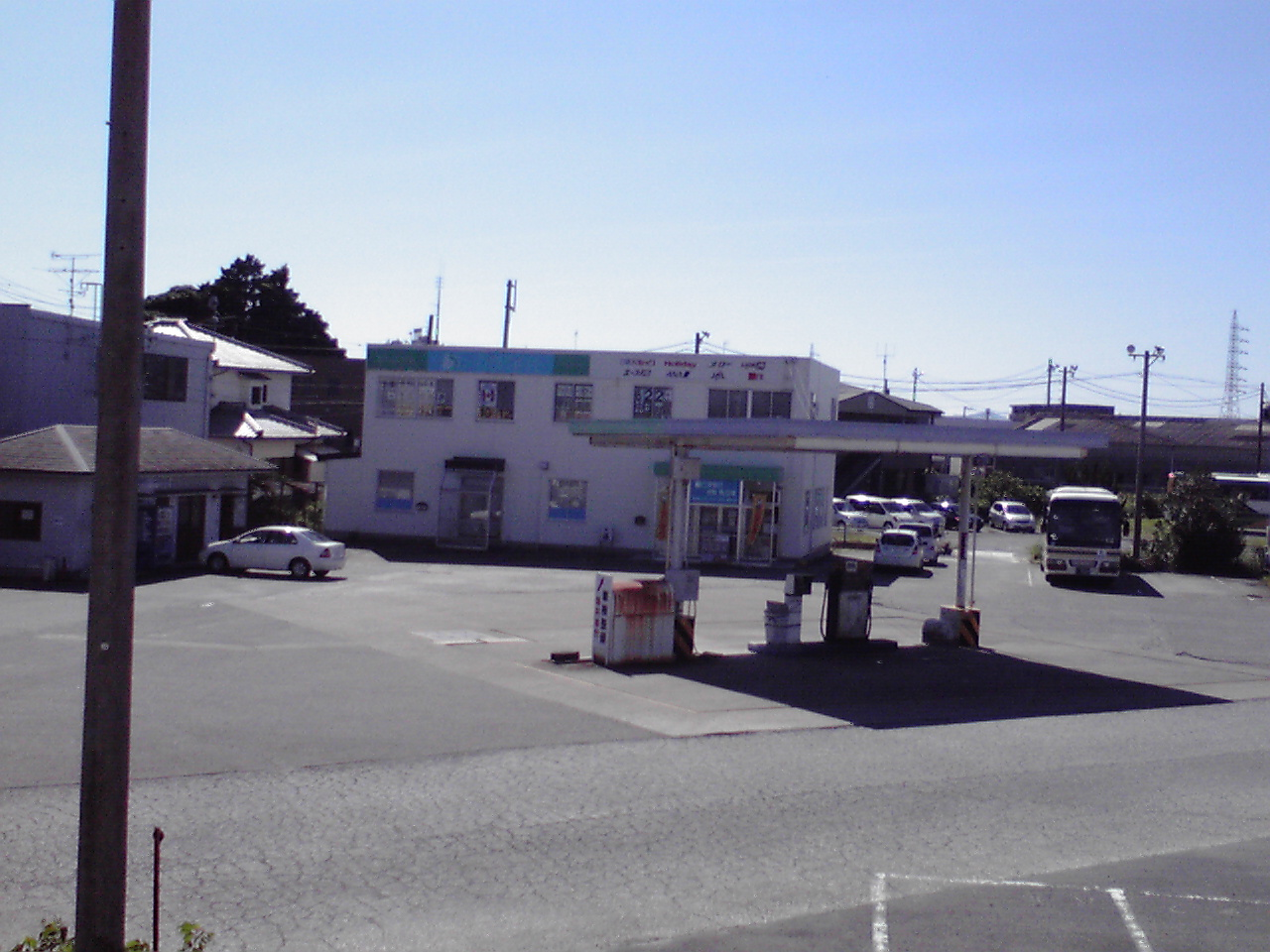 This is the Mie Kotsu Ise Branch in Ise, Mie.